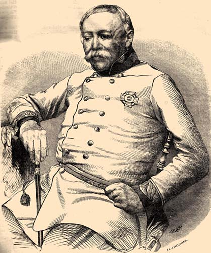 Joseph Radetzky von Radetz